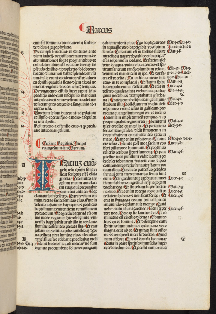 First page of the Gospel of Mark from a Latin bible dated 1486. Shelfmark: Bib. Lat. 1486 c.2. Folio b 7 r. Digitised by the Polonsky Foundation Digitization Project. More provenance information at